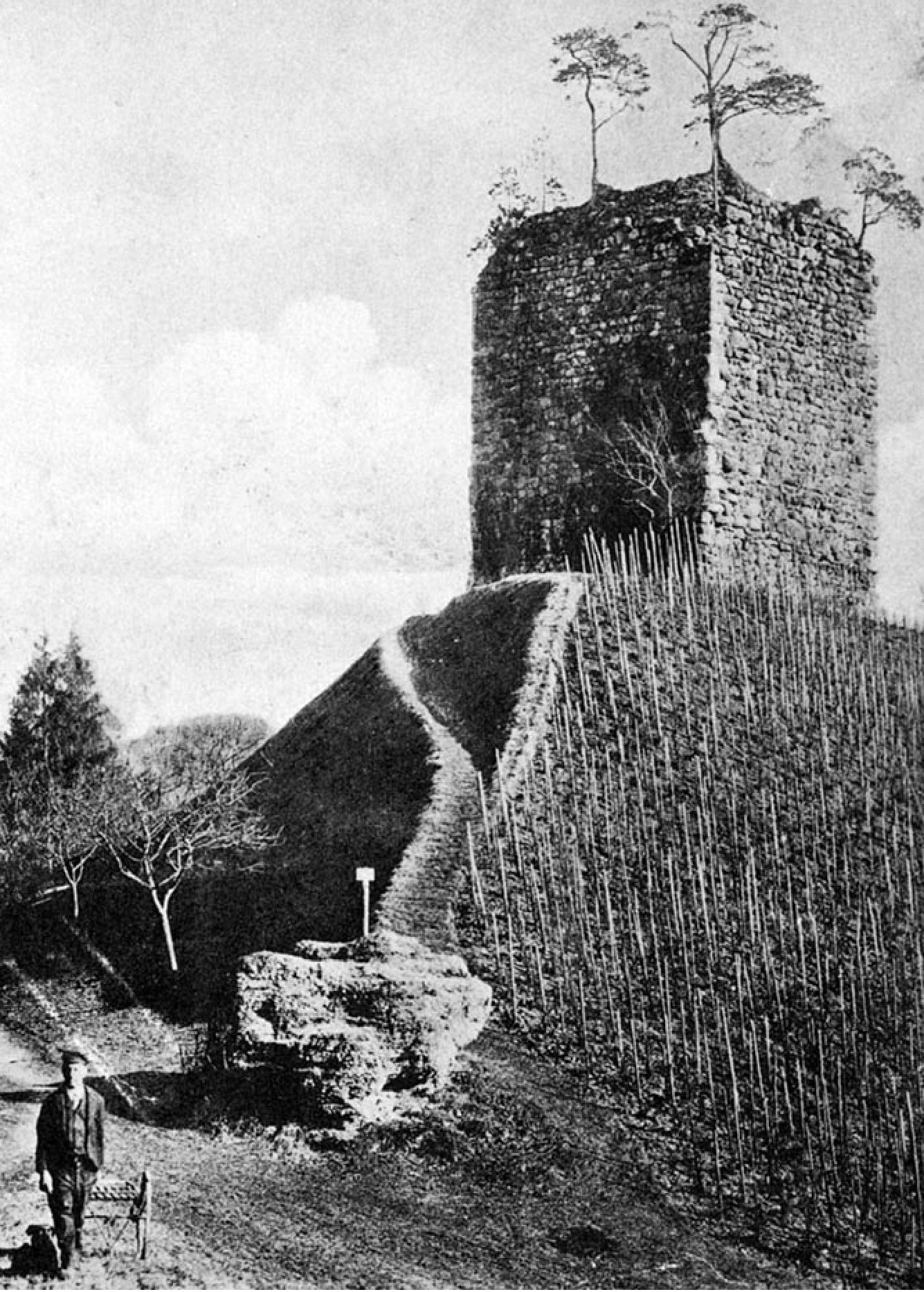 Ruins of the castle of Schönenberg in Kradolf-Schönenberg (Switzerland) at the beginning of the 20th century